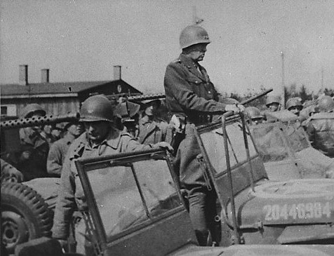 General George Patton (standing in the jeep) prepares to depart from Ohrdruf after an official tour of the newly liberated camp.